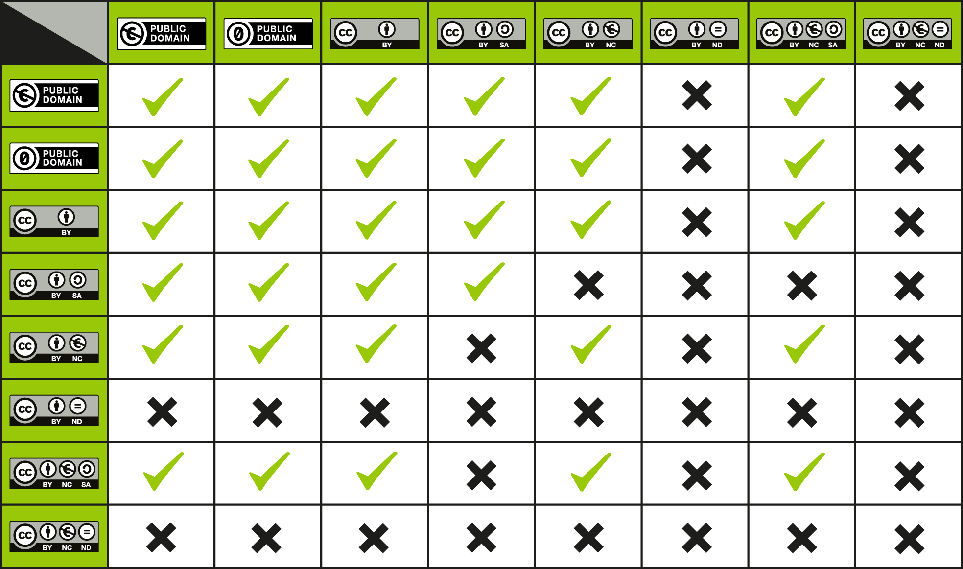 This is a license compatibility chart when you want to combine or mix two CC licensed works. Created by Kennisland published under a CC0 license.